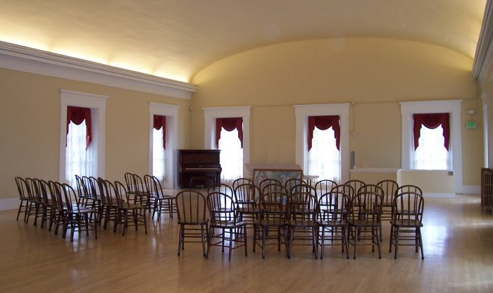 This is the assembly hall on the second floor of the Territorial Statehouse in Fillmore, Utah.